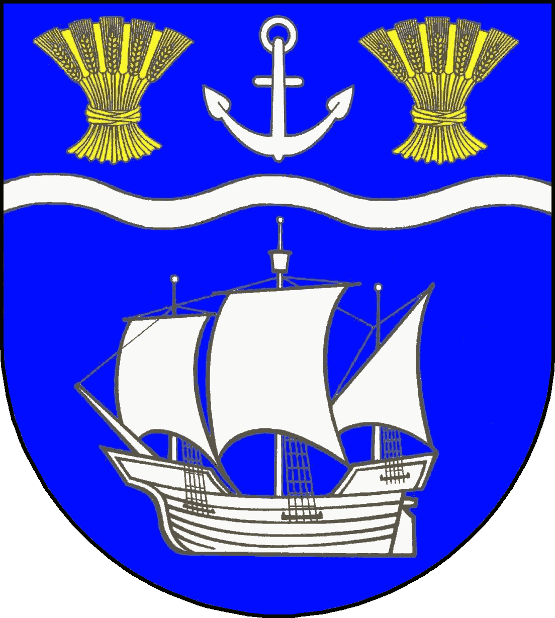 Coat of arms of the municipality Beidenfleth in Schleswig-Holstein, Germany.